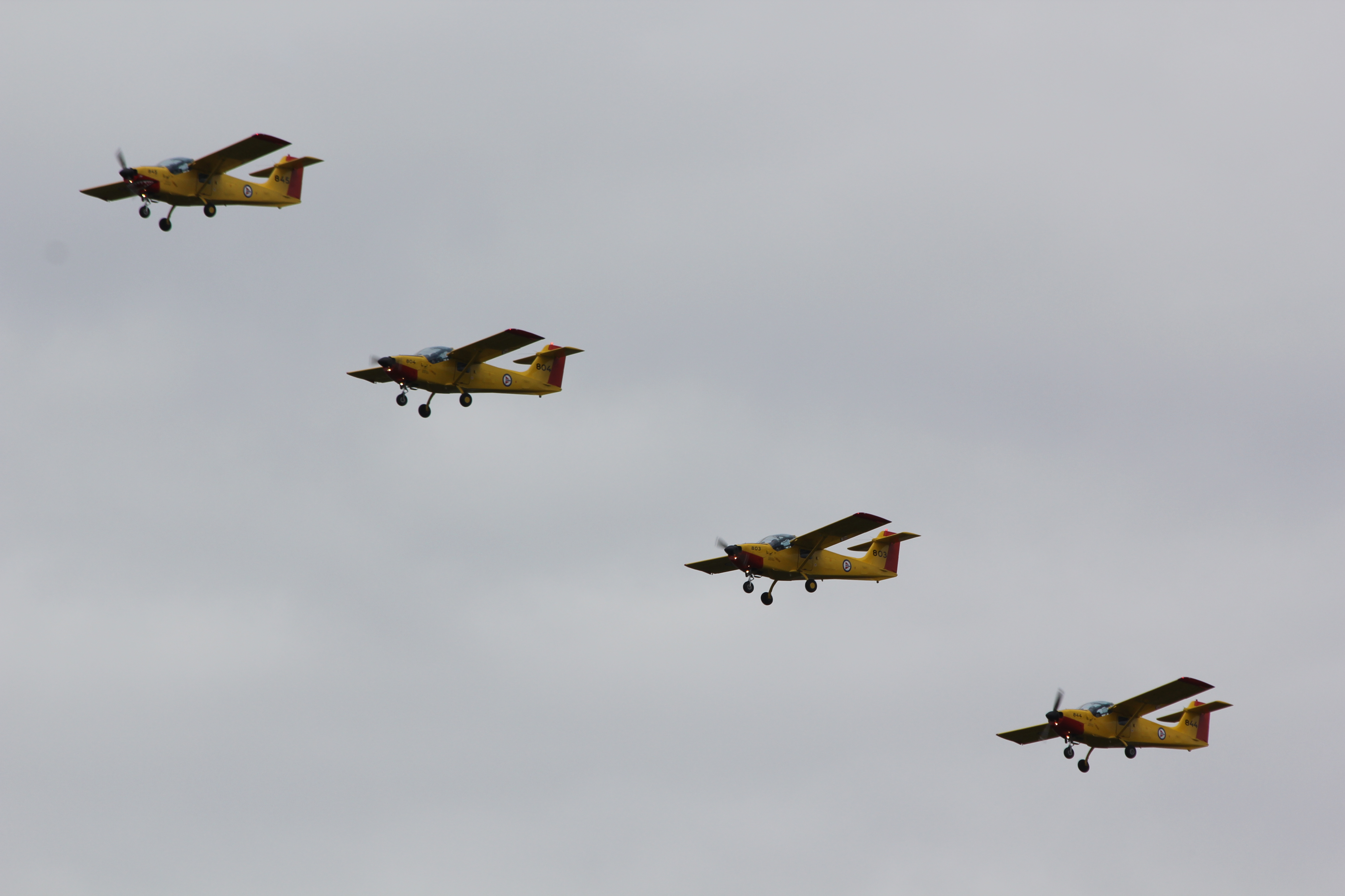 Norwegian air force Yellow Sparrows team aerobatic display flight with Saab MFI-15 Safaris in Turku Airshow 2015.